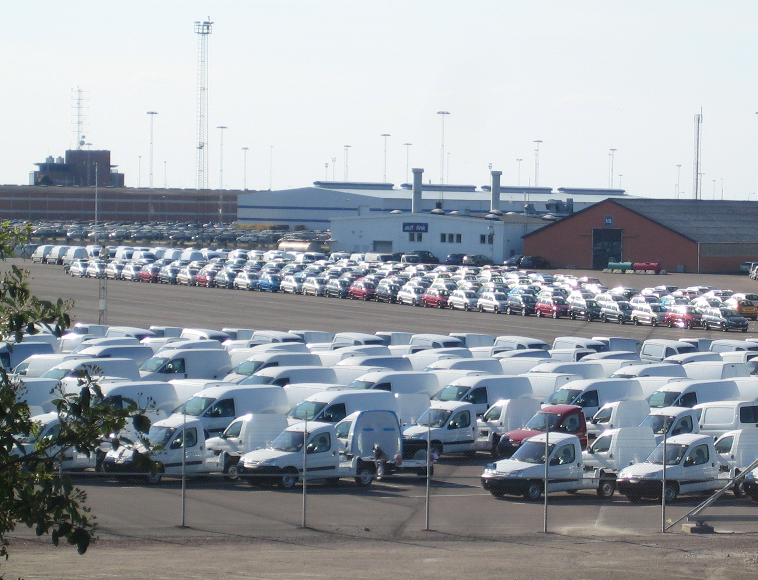 Car import in Malmö harbour, Sweden.